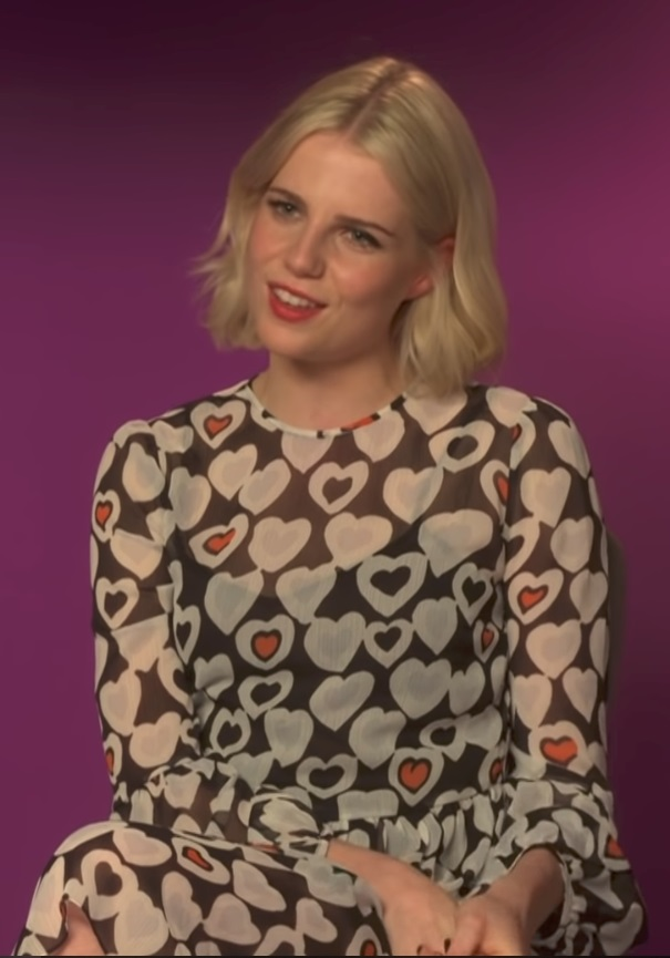 The stars of Queen biopic BOHEMIAN RHAPSODY Rami Malek, Joseph Mazzello, Gwilym Lee, and Lucy Boynton play a REGAL and FABULOUS game of Who Said It: QUEEN or THE QUEEN! Can they work out who said each quote? Plus, the cast give us all the deets on the incredible extended, 20 minutes long LIVE AID scene you WON’T see in cinemas. Subscribe to MTV for more great videos and exclusives!